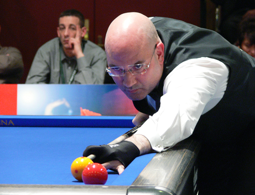 German carom billiards player